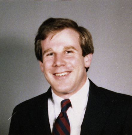 Portraits of Assistants to The Presidents Ed Meese James Baker Michael Deaver William Clark James Brady Richard Darman Ken Duberstein Fred Fielding Craig Fuller David Gergen John Herrington Ed Hickey James Jenkins Michael Mcmanus John Rogers Edward Rollins Larry Speakes John Svahn Lee Verstandig Faith Whittlesey, 9/19/1983